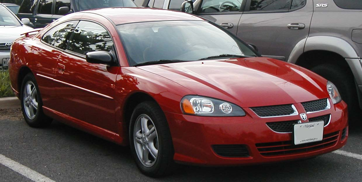 2003-2005 Dodge Stratus coupe photographed in USA.